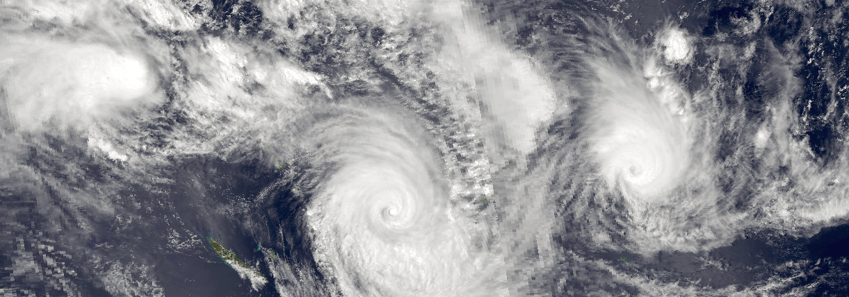 A Collage of AVHRR images of Tropical Cyclones Katrina, Susan, and Ron.